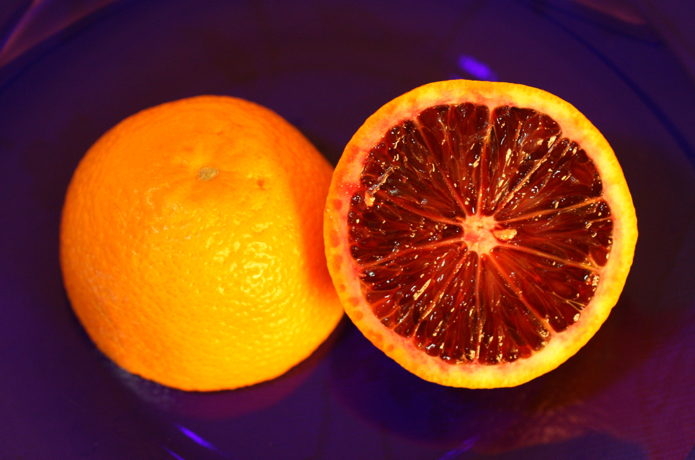 California blood orange